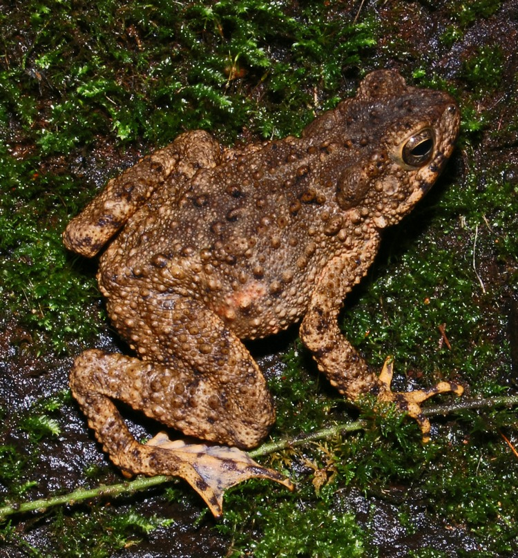 Bufo asper, from Ciapus leutik river, Calobak, Bogor, West Java, Indonesia